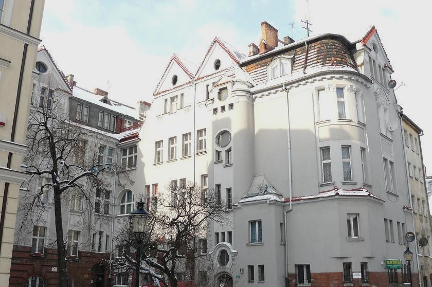 Hospital for Old Mens (Jews). Poznan. Zydowska 15/18 Street.